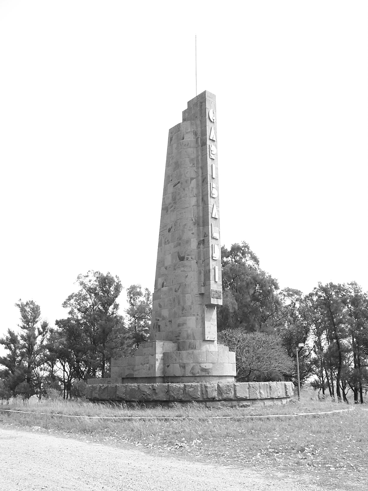 Garibaldi monument, in Salto Uruguay, obra del Arq. Juan Veltroni